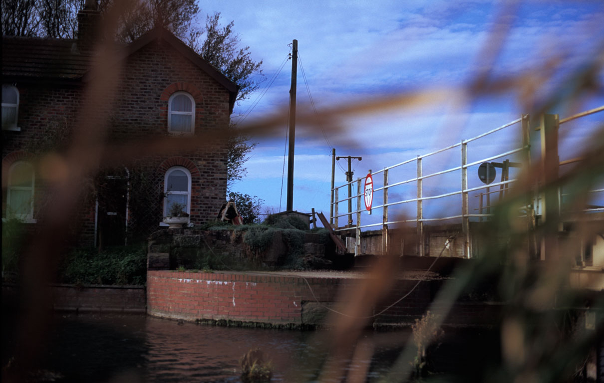 Bethells Bridge seen through reeds growing on the banks of the Driffield Navigation, Hempholme, East Riding of Yorkshire, England (Michael Askin)